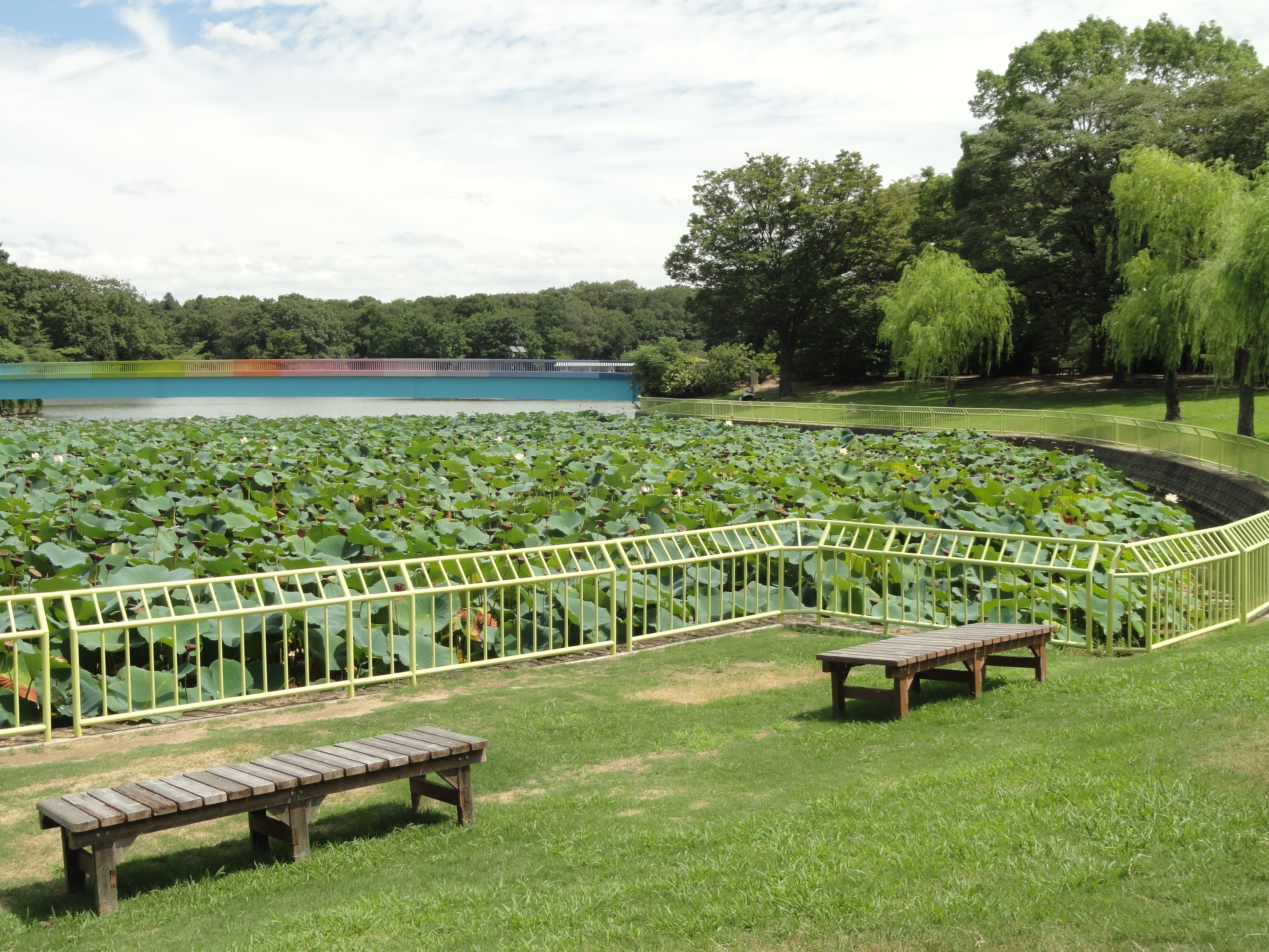 Nagai Botanical Garden (大阪市立長居植物園), Osaka, Japan.